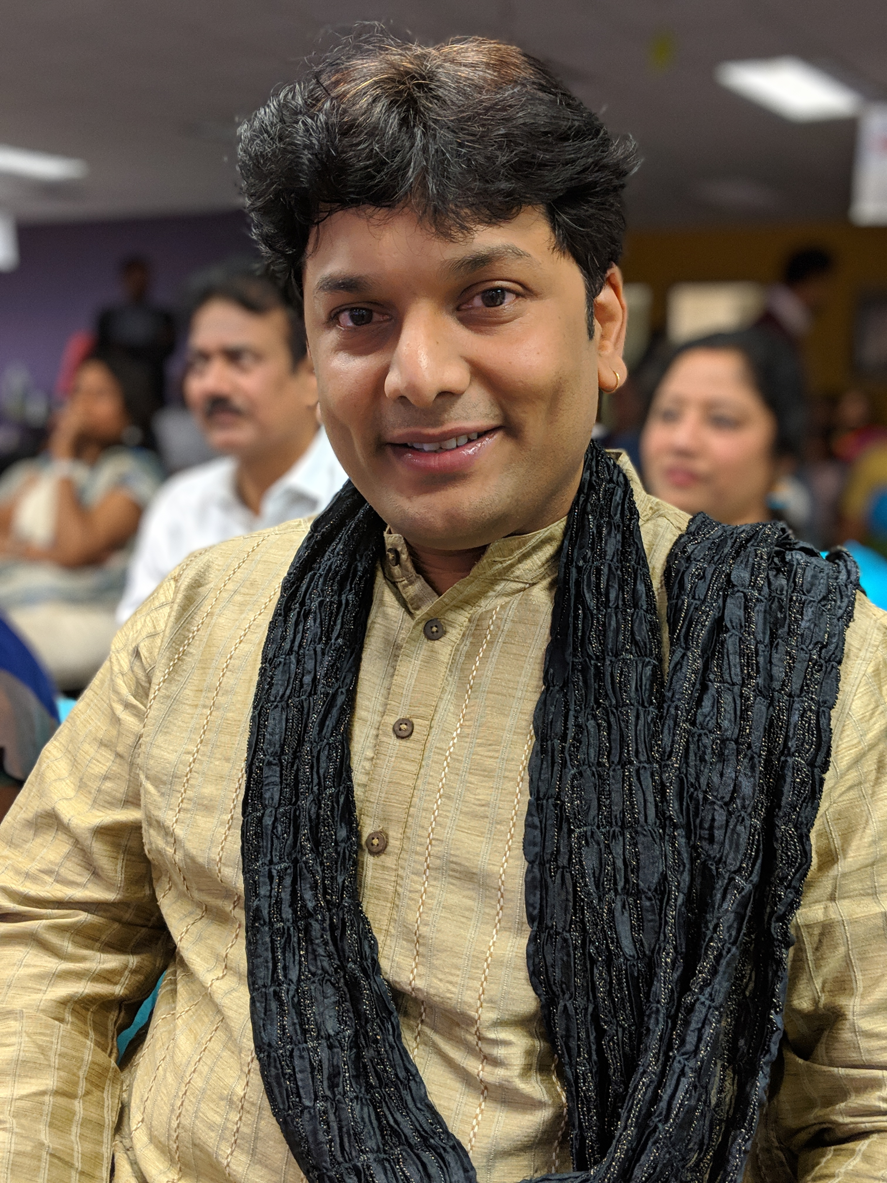 Portrait of singer, Harish Raghavendra